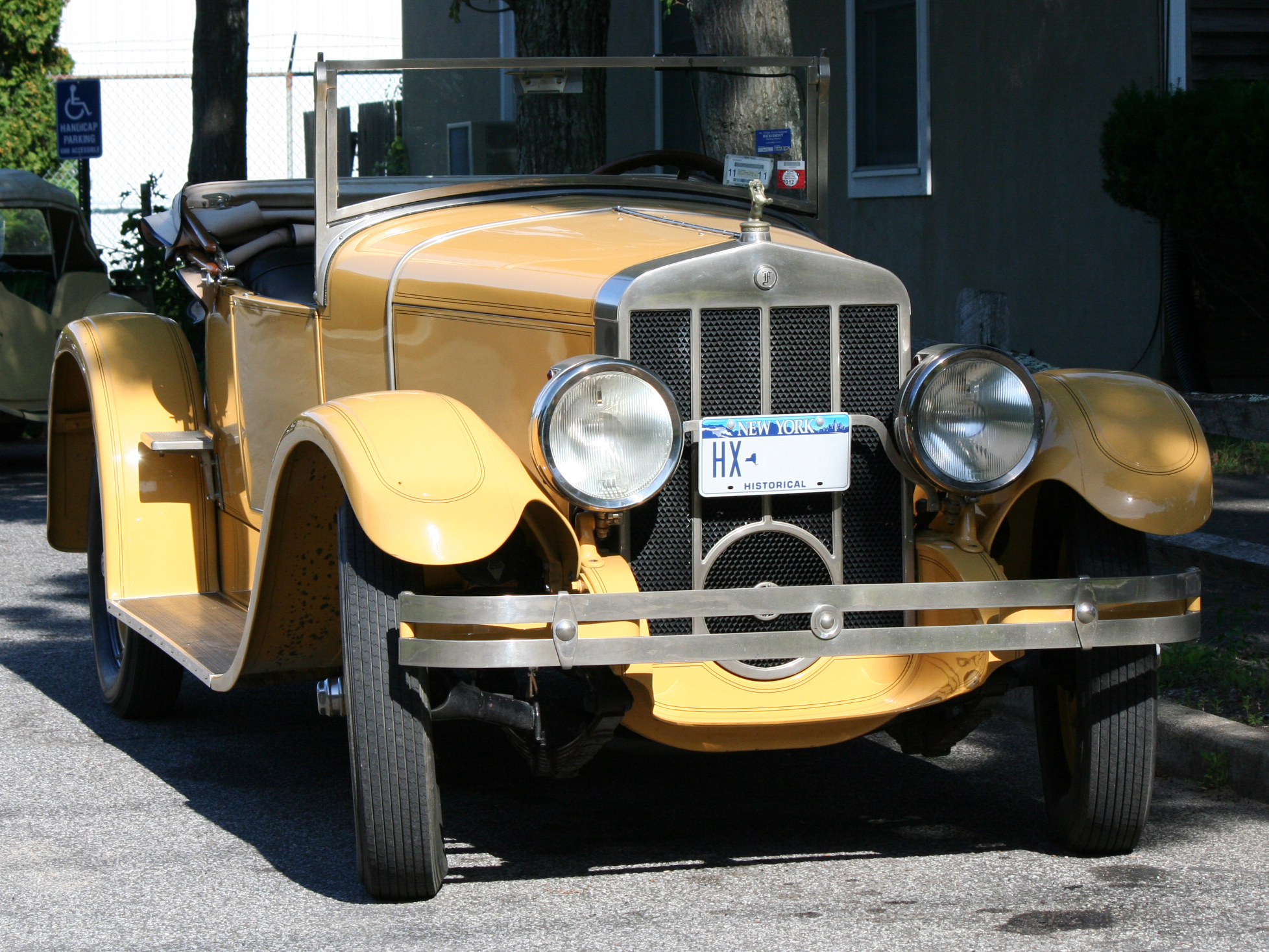 1927 Franklin Boattail Roadster in East Hampton, NY